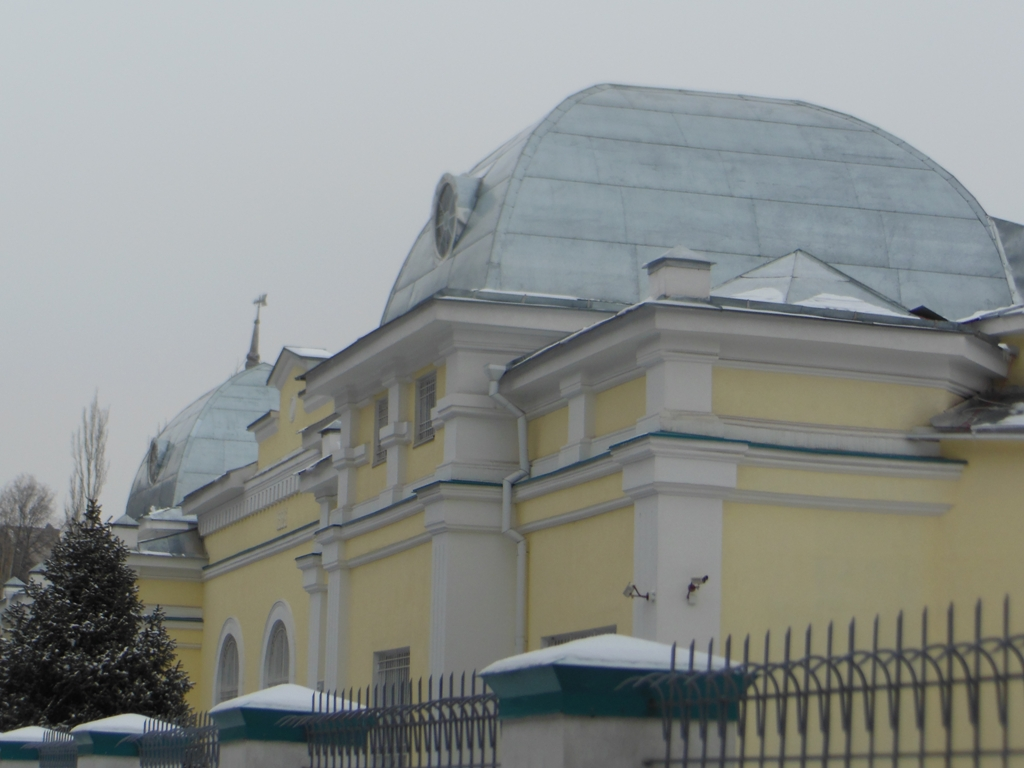 Central Bank KASSR by Intergelpo